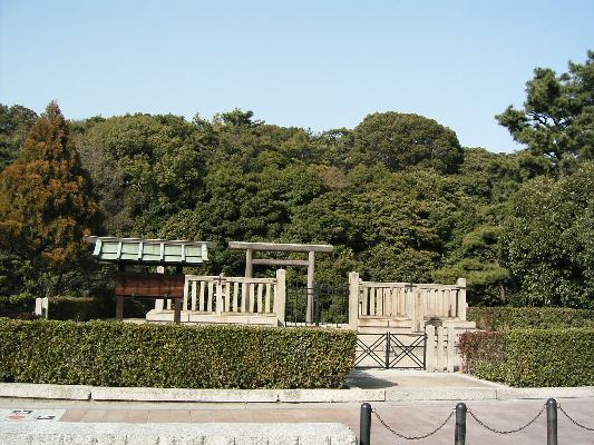 The front of the mausoleum (misasagi) of Emperor Hanzei in Sakai, Osaka Prefecture (Japan)